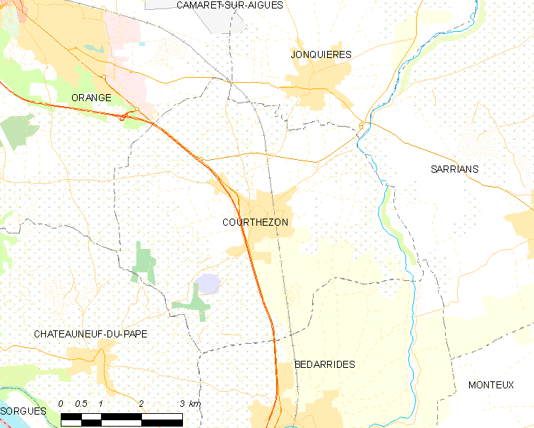 Map of French municipality Courthézon